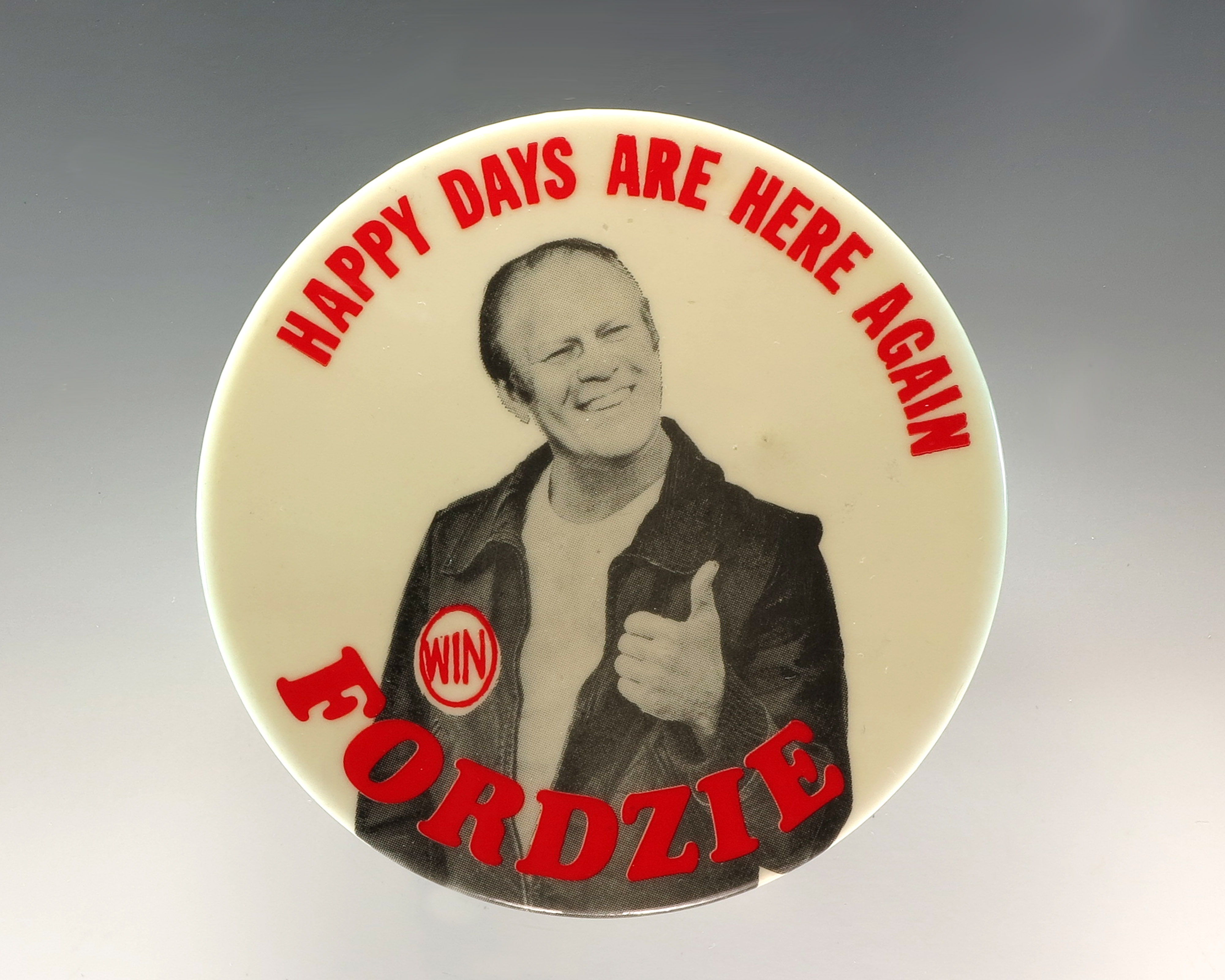 White campaign button with image of Gerald R. Ford imitating the TV character the "Fonz" (wearing a WIN button) with accompanying text in red, “HAPPY DAYS ARE HERE AGAIN / FORDZIE.” Made for Gerald R. Ford’s 1976 presidential campaign.